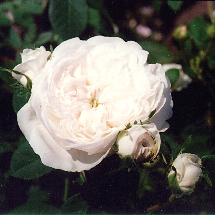 Old Garden Rose Damascena x Alba group